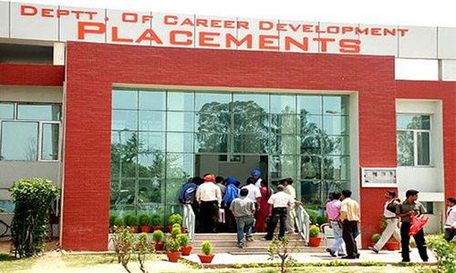 DOCDP